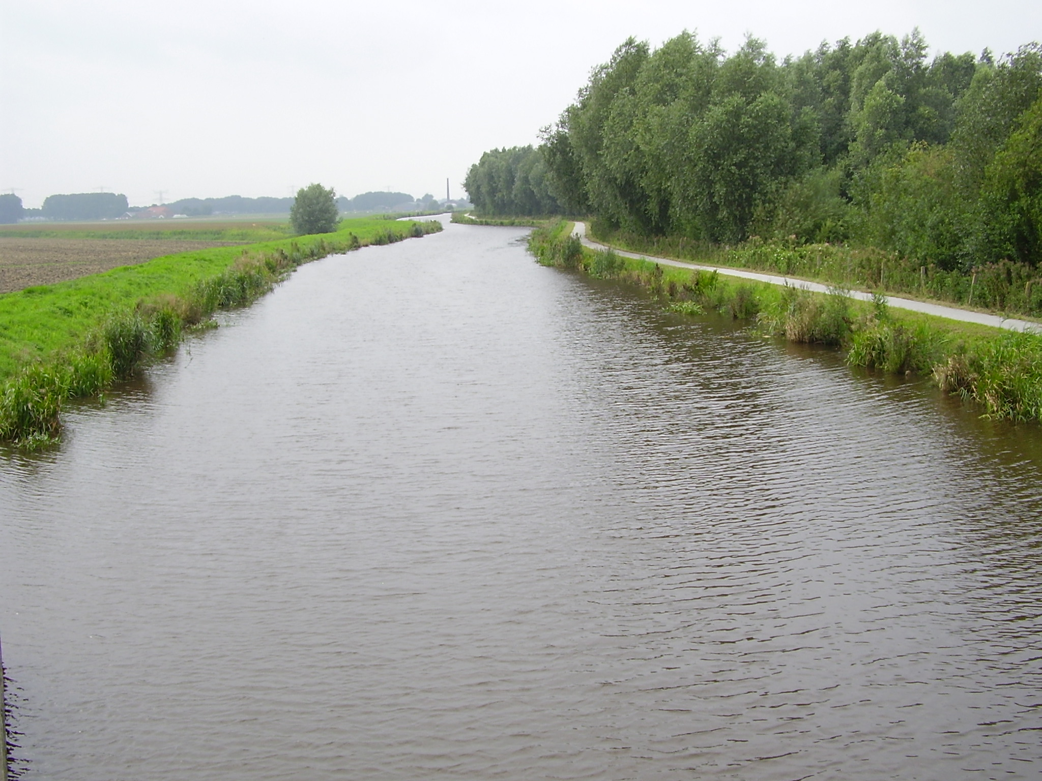 Pekel Aa river, south of Winschoten from the bicycle bridge seen north to Winschoterhoogebrug